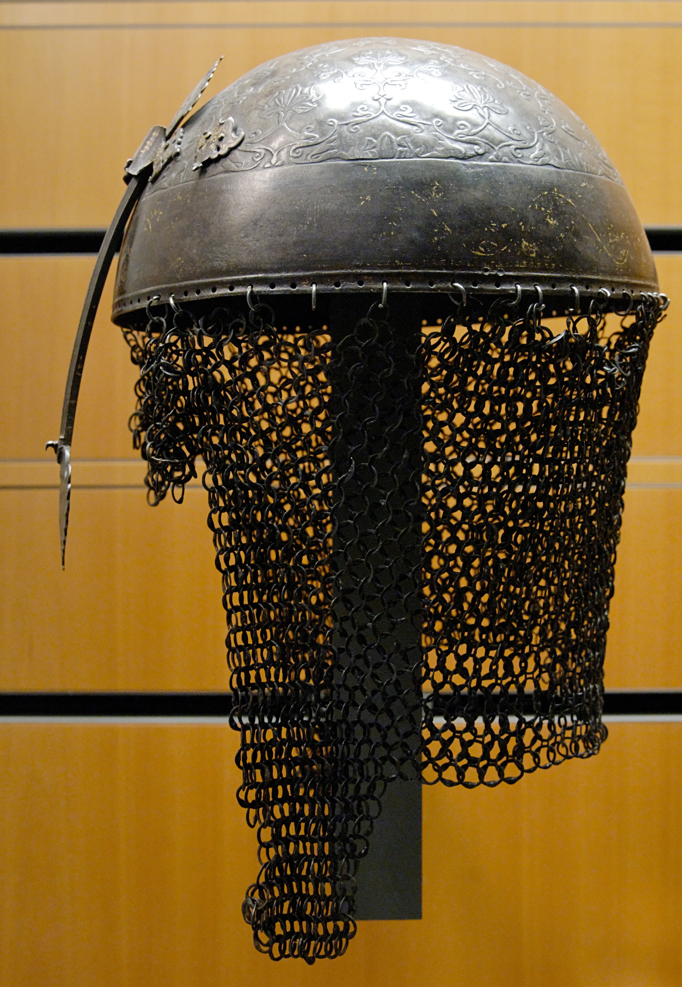 Helmet. Engraved and leaf-gilted iron or steel, 17th–18 centuries. From India or Iran.